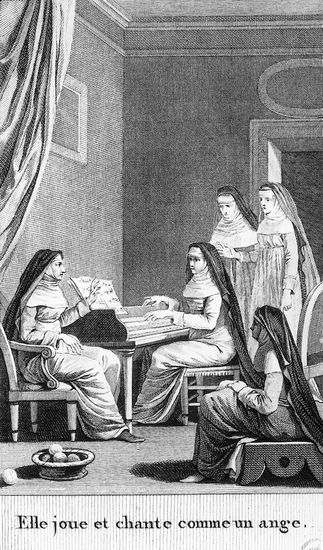 Illustration of the novel La Religieuse (Nun) of Denis Diderot, from Giraud 1796